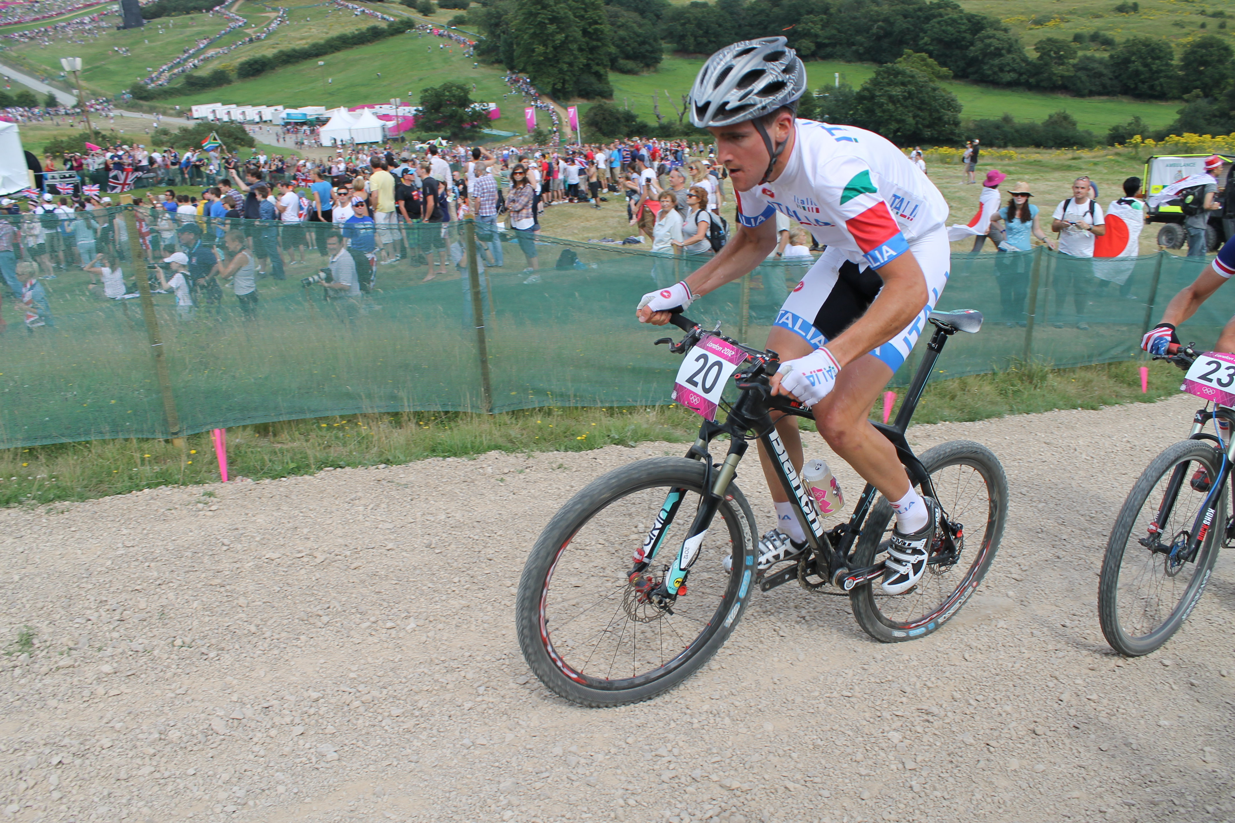 Cycling at the 2012 Summer Olympics – Men's cross-country Gerhard Kerschbaumer (20) (ITA) IMG_4033